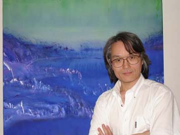 The portrait of FENG Xiao-Min